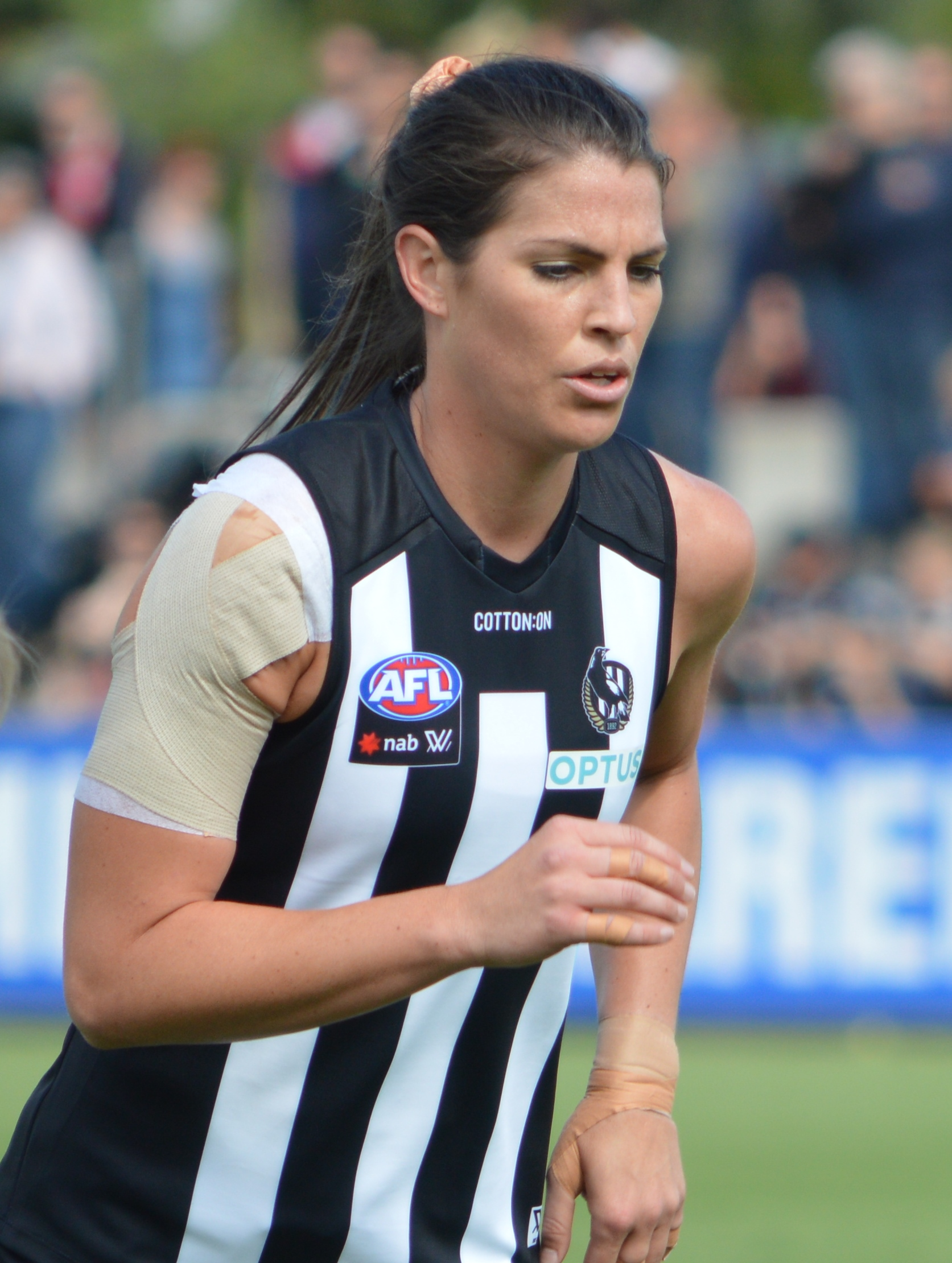 Eliza Hynes with Collingwood during a match against Melbourne at Victoria Park in round 2 of the 2019 AFL Women's season.